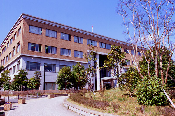 Osaka kyoiku University Kashiwara 大阪教育大学 柏原キャンパス